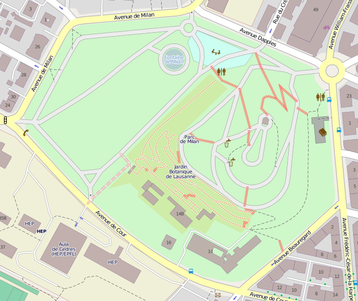 Map of the Parc de Milan, LausanneThis map of Lausanne, Switzerland was created from OpenStreetMap project data, collected by the community. This map may be incomplete, and may contain errors. Don't rely solely on it for navigation.